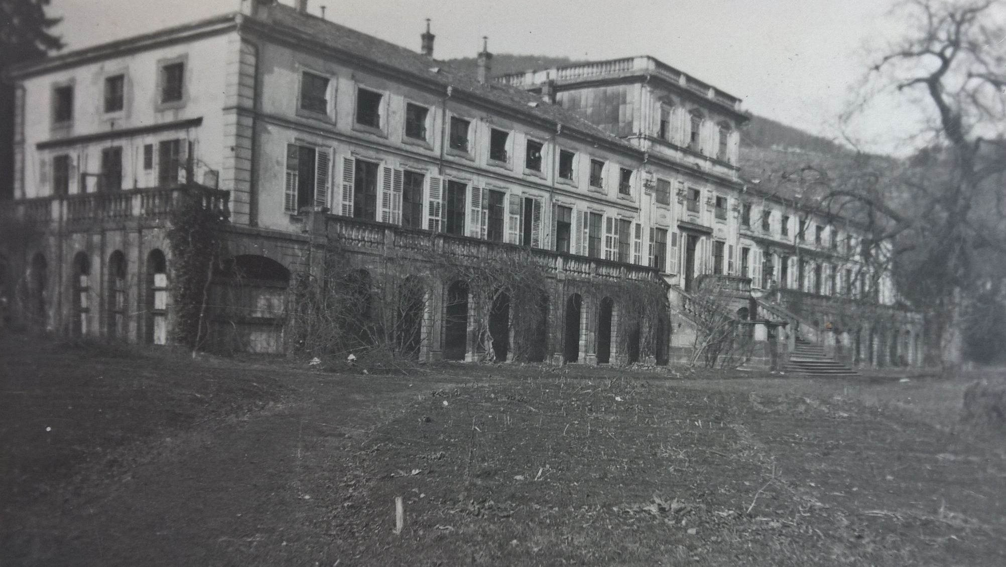 Gebweiler Castle 1944